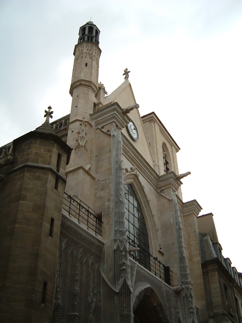 Taken by James@hopgrove, October 2005.